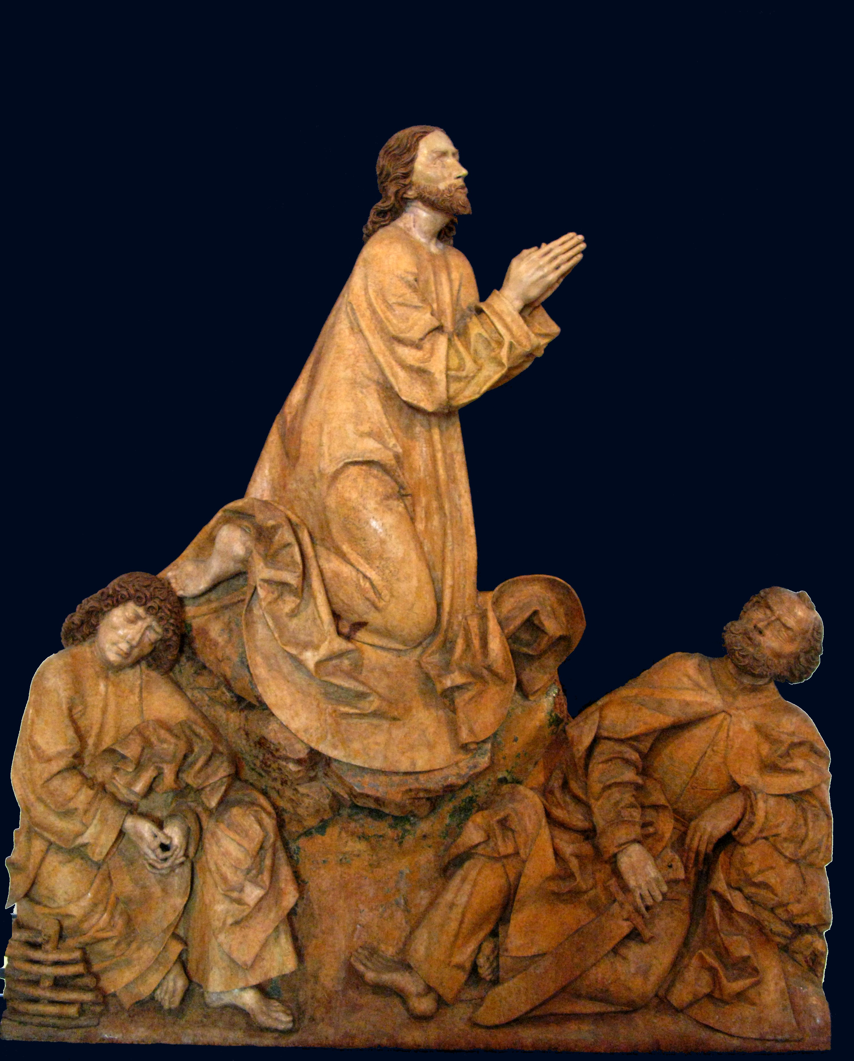 Veit Stoss, Christ in the Garden of Gethsemani, Ptaszkowa, Poland